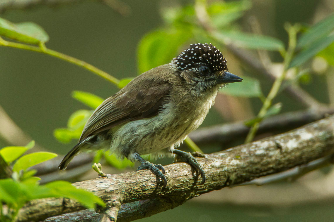 Graysh Piculet - Colombia_S4E9137